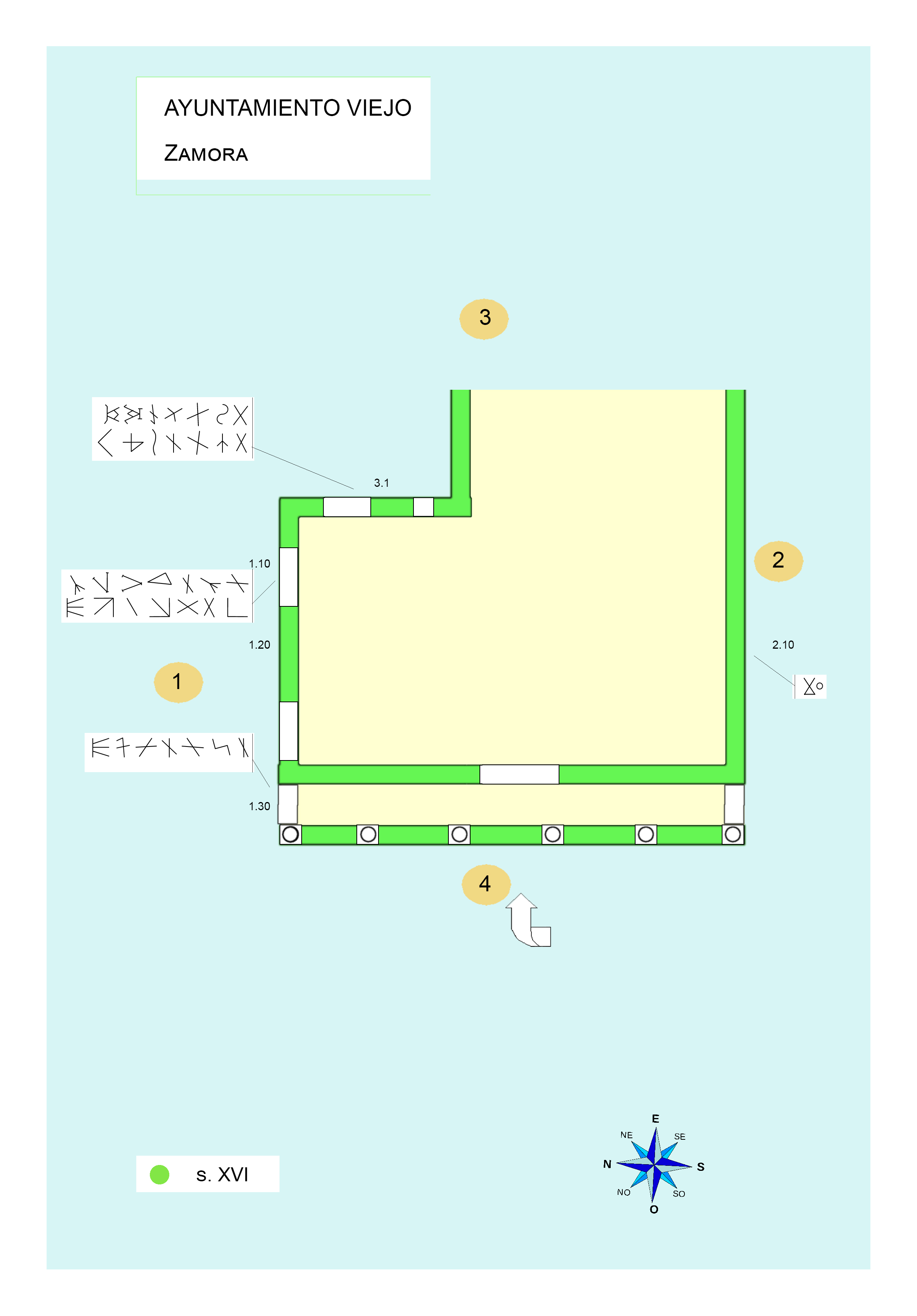 City Hall, Zamora Spain. s XVI. Plan appro. and stonecutter marks